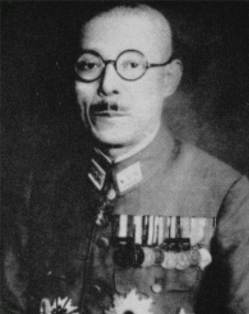 Kimura Heitaro